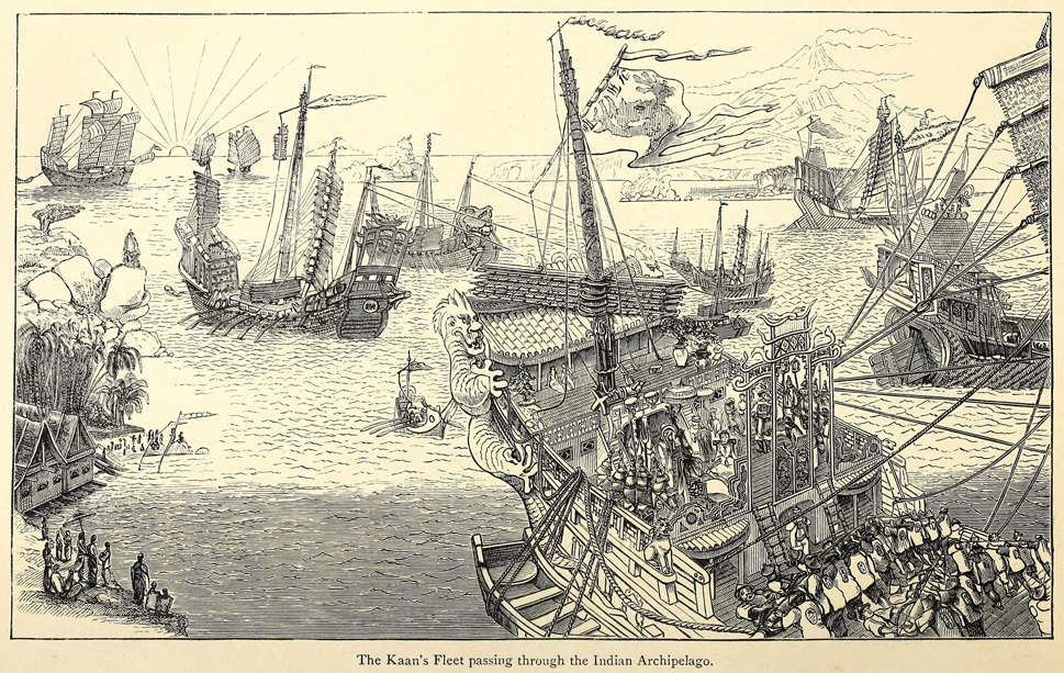 Kublai Khan's fleet passing through the Indian (Indonesian) Archipelago.